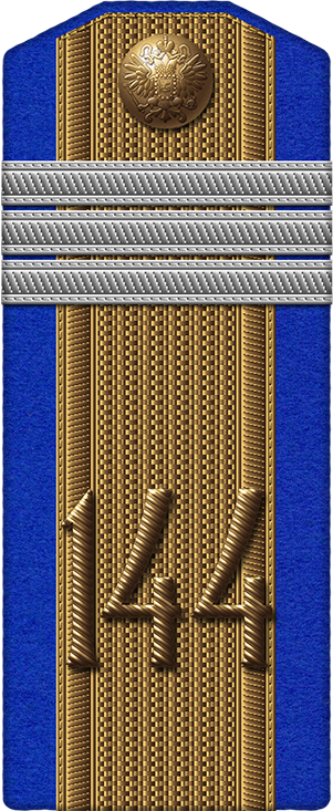 Rank insignia of the Imperial Russian Army, shoulder strap Army 1914-1917: «Junior-praposhchik»/ on assignment «Senior Sergeant » – Kashirsky 144th infantry regiment.